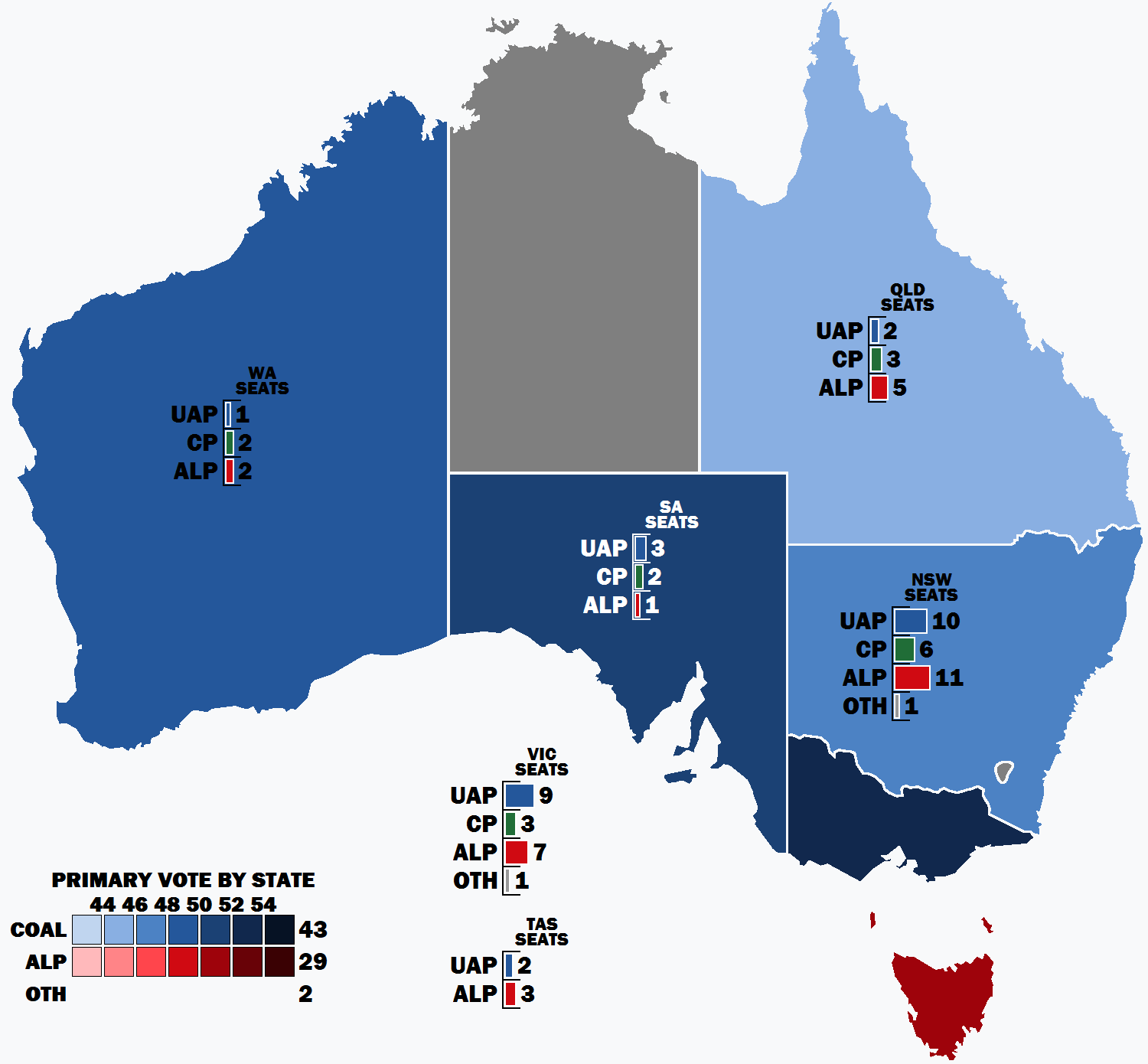 Result of the primary vote by state in the 1937 Australian federal election.